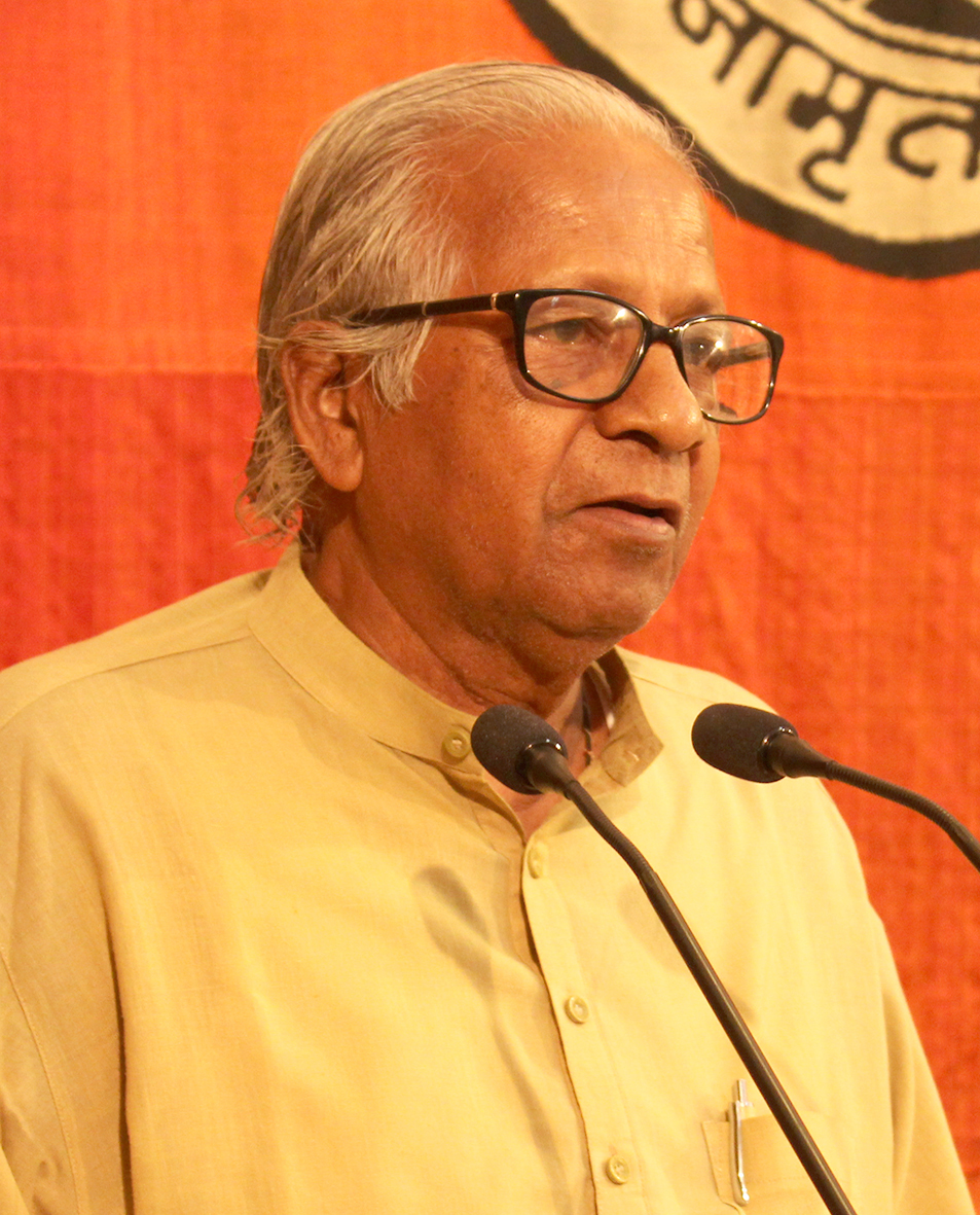 Gujarati writer Chandrakant Sheth